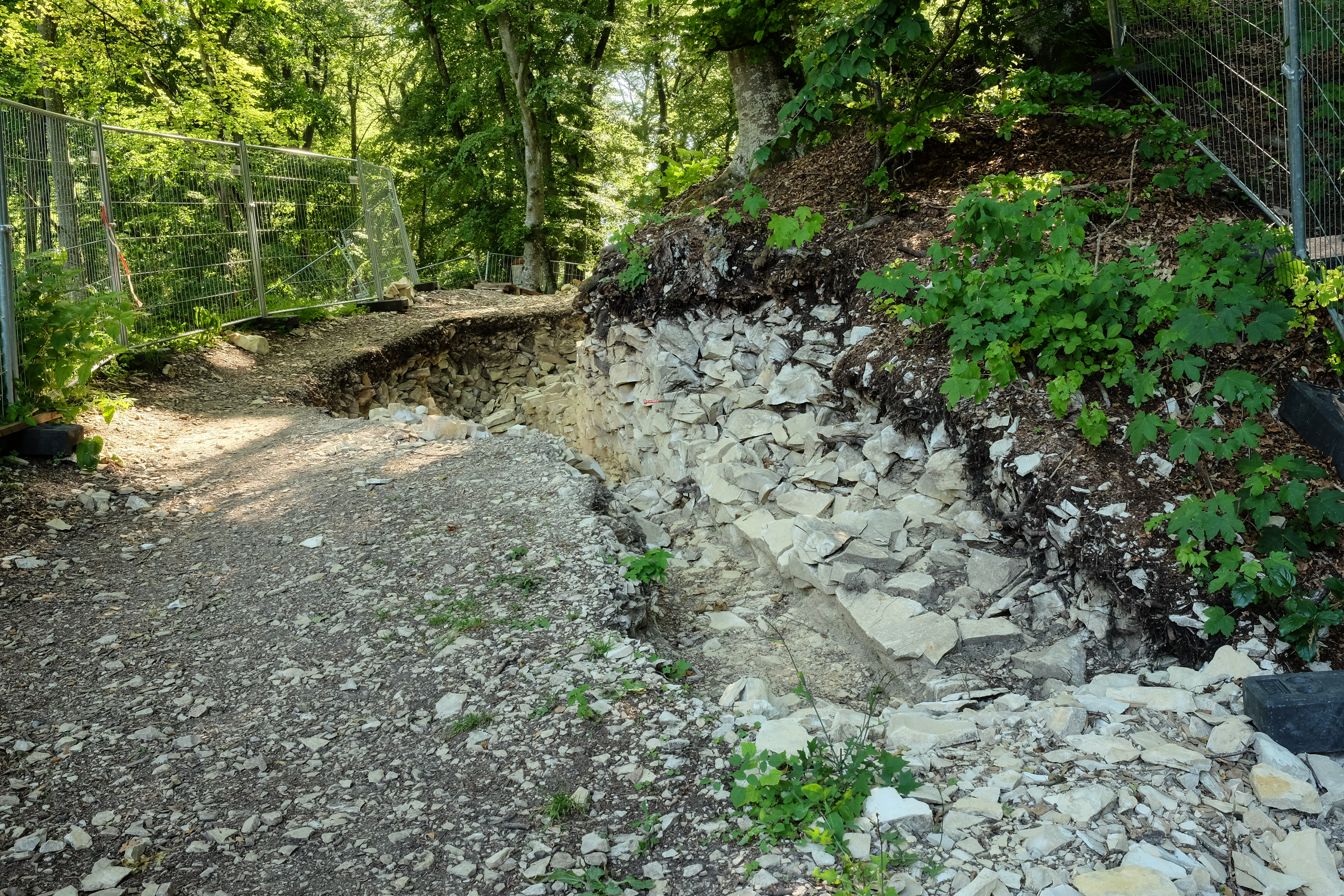 Celtic hillfort Alte Burg, Langenenslingen, district Biberach, Baden-Württemberg, Germany